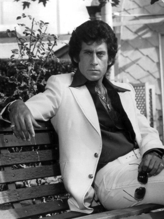 Photo of Paul Michael Glaser David Starsky from the television program Starsky and Hutch.